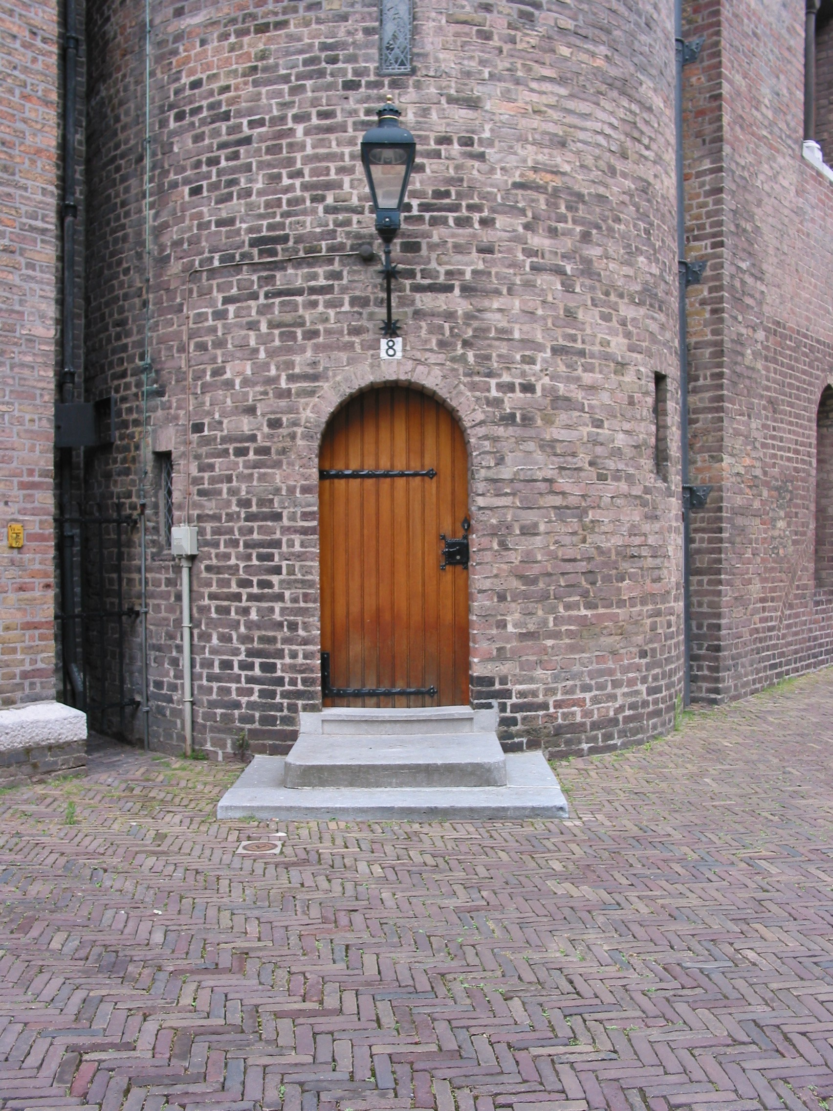 Binnenhof 8, The Hague.